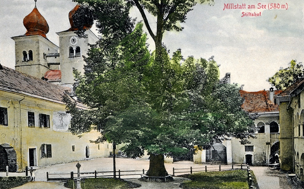 Postcard. Inner courtyard in the monestry of Millstatt district Spittal an der Drau in Carinthia / Austria / European Union. This media shows the natural monument in Carinthia with the ID Sp 01.